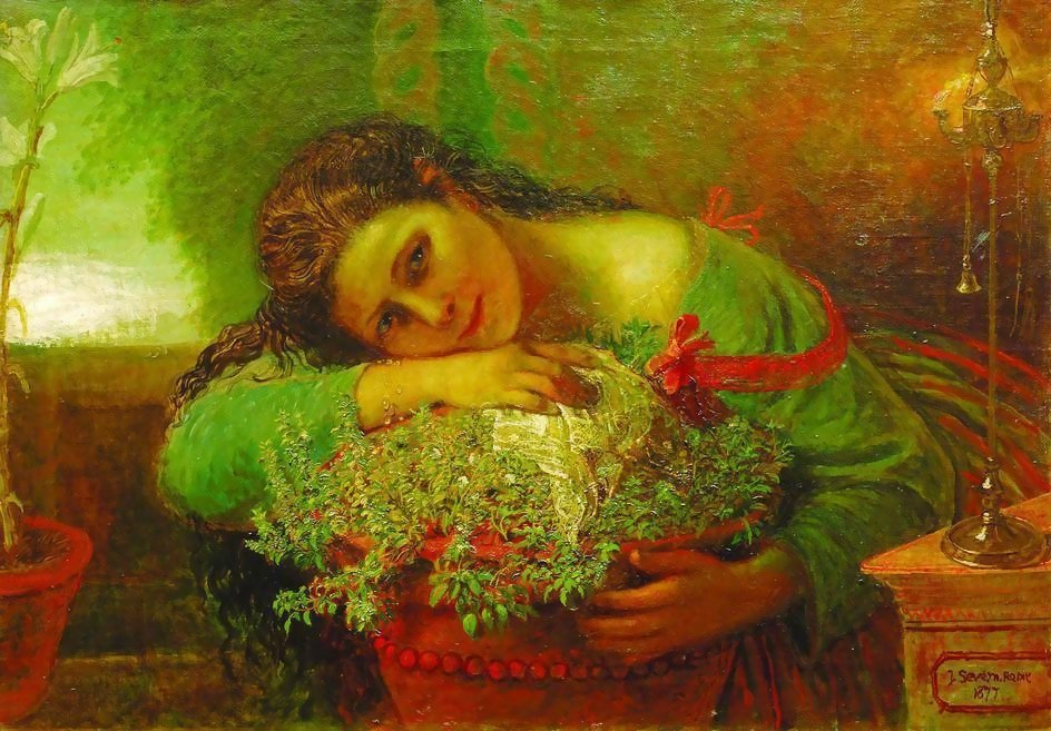 Isabella, or the Pot of Basil